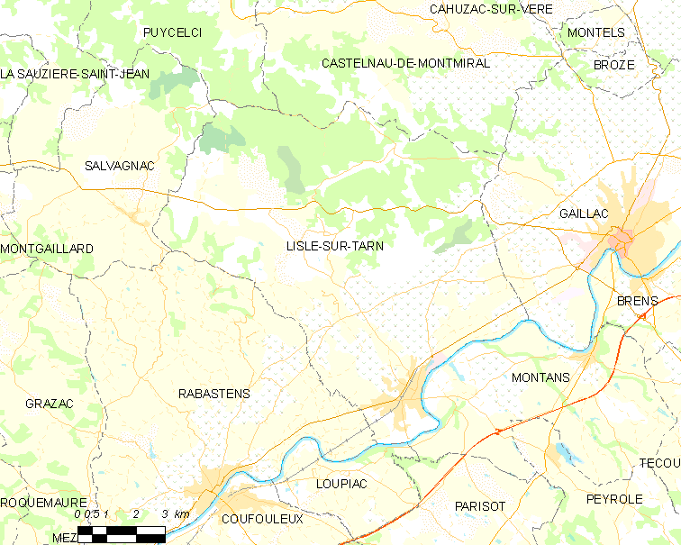 Map of French municipality Lisle-sur-Tarn